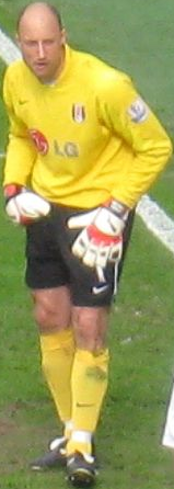 Kasey Keller. Image cropped from original at flickr.